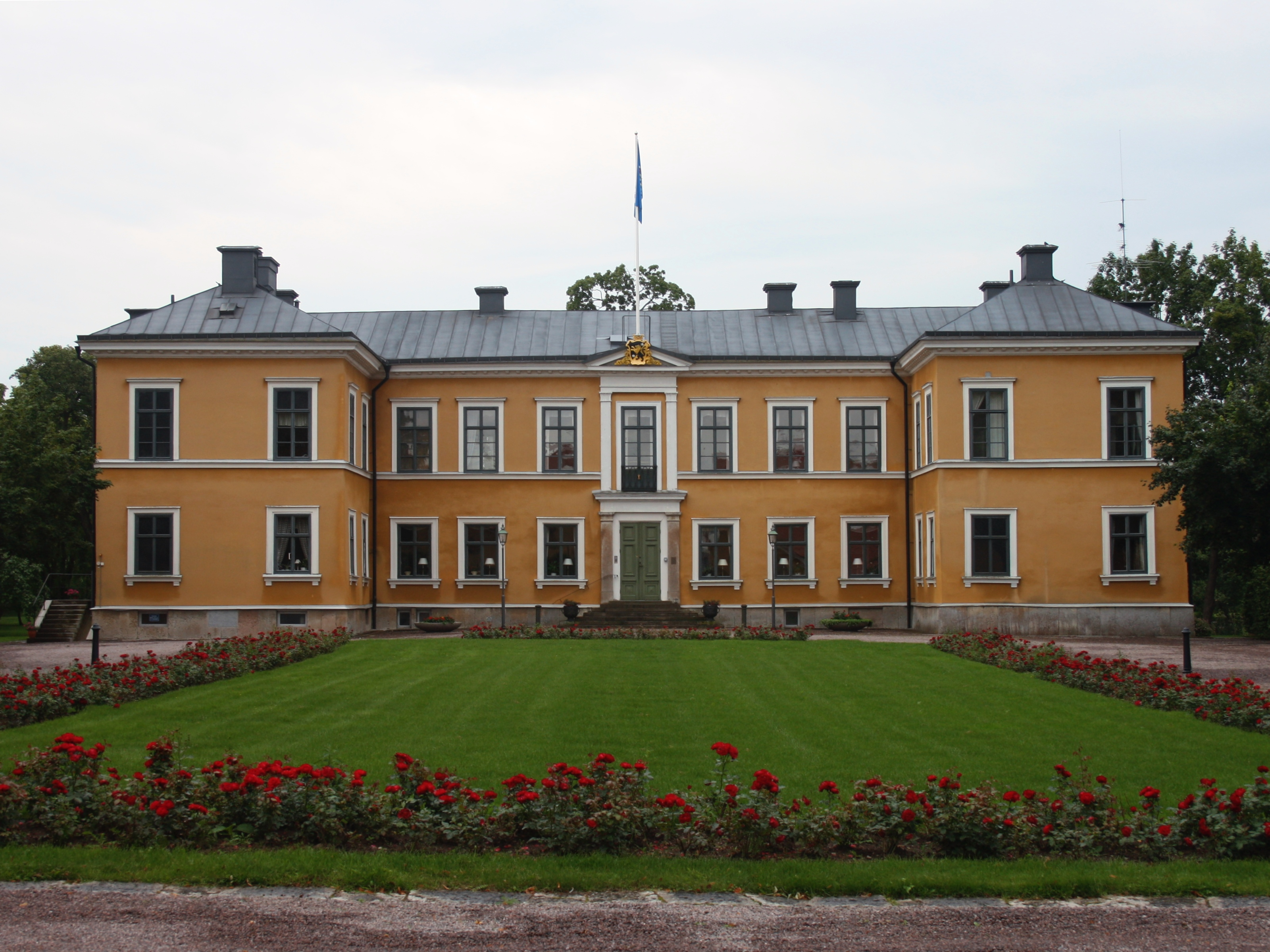 Mariestad, Sweden. Former residence Mariestad, view from North.